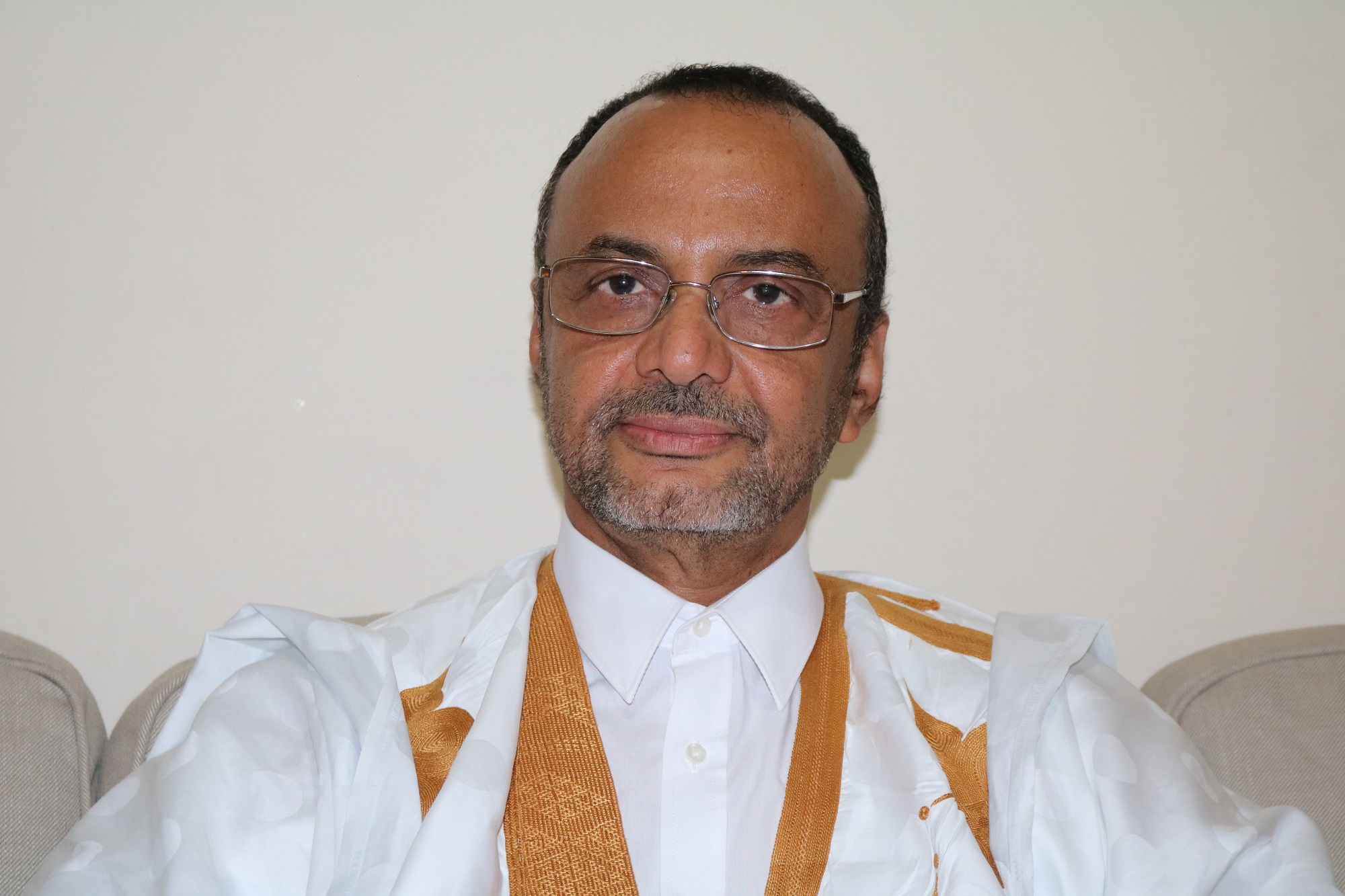 Sidi Mohamed Ould Boubakar in 2017